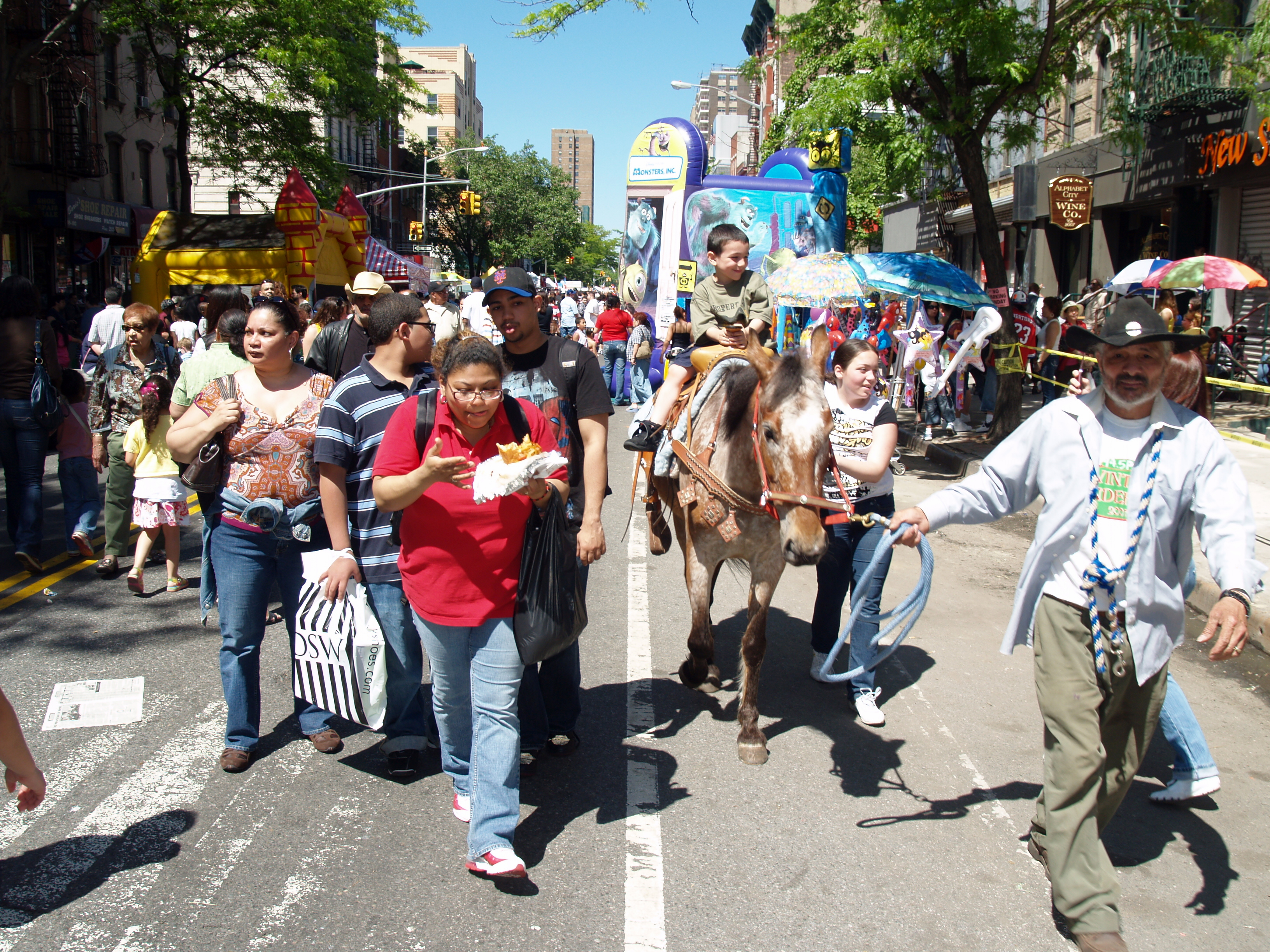 Loisaida neighborhood street fair in the East Village of New York City.